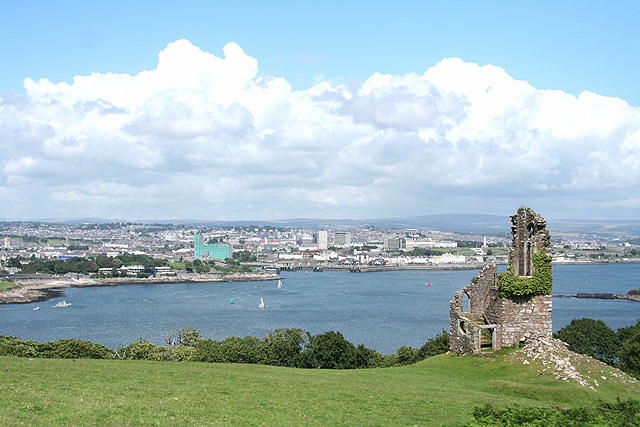 Maker with Rame: view to Plymouth, near to Cremyll, Cornwall, Great Britain. Seen from the South West Coast Path, by the folly in Mount Edgcumbe park, looking north east towards the entrance to Millbay Docks, Stonehouse